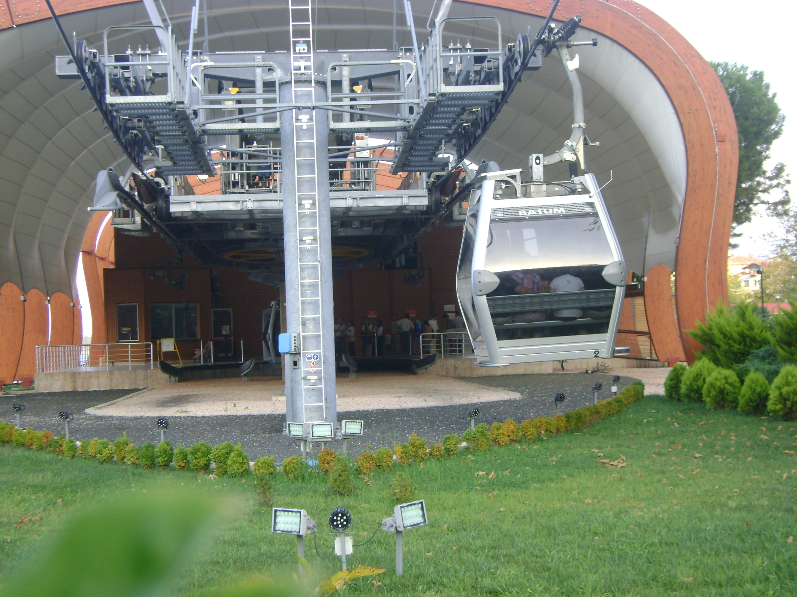 Ordu-Boztepe ropeway's „Batumi“ cabin